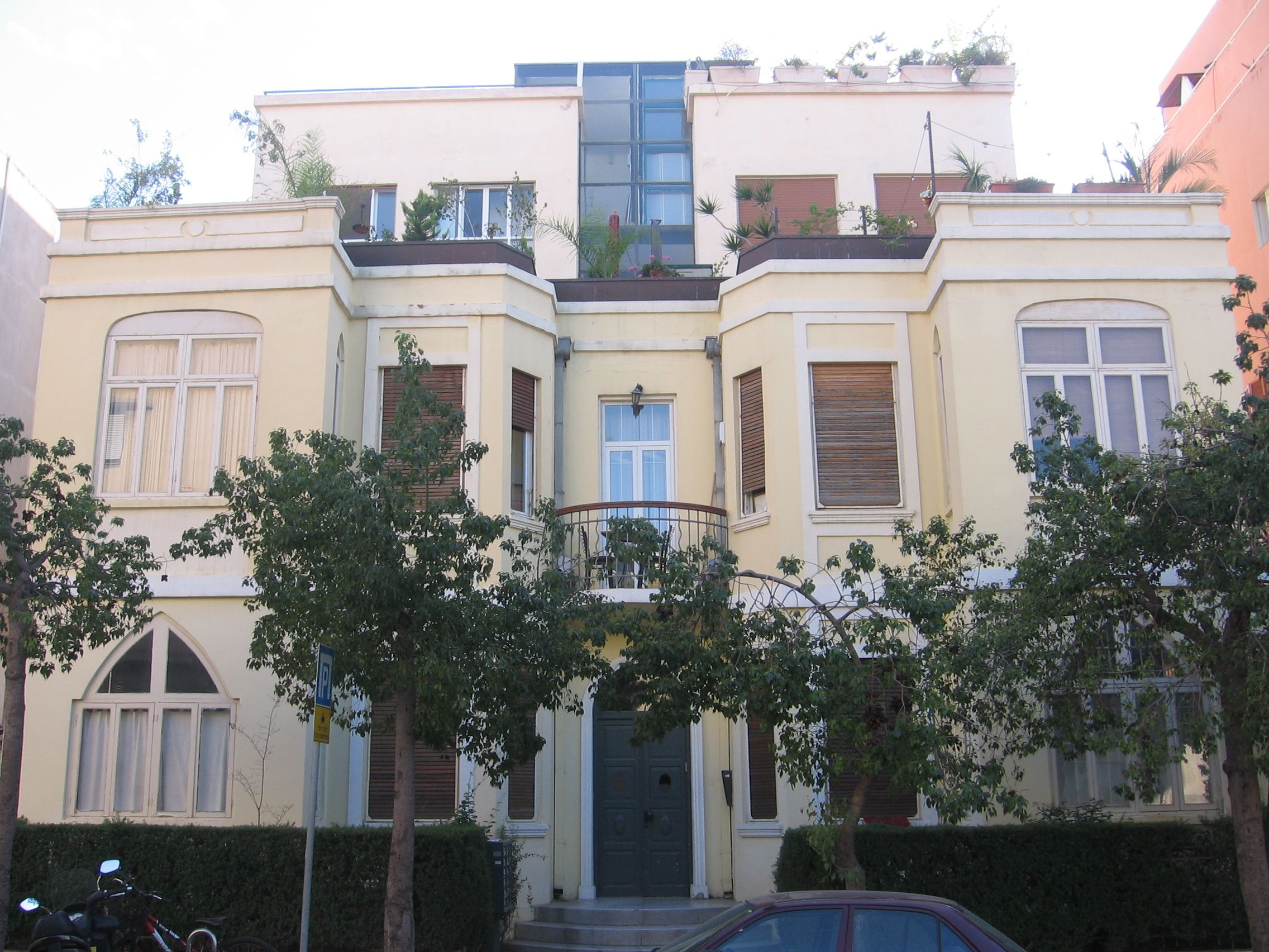 House on 20 Mazeh street, Tel Aviv.